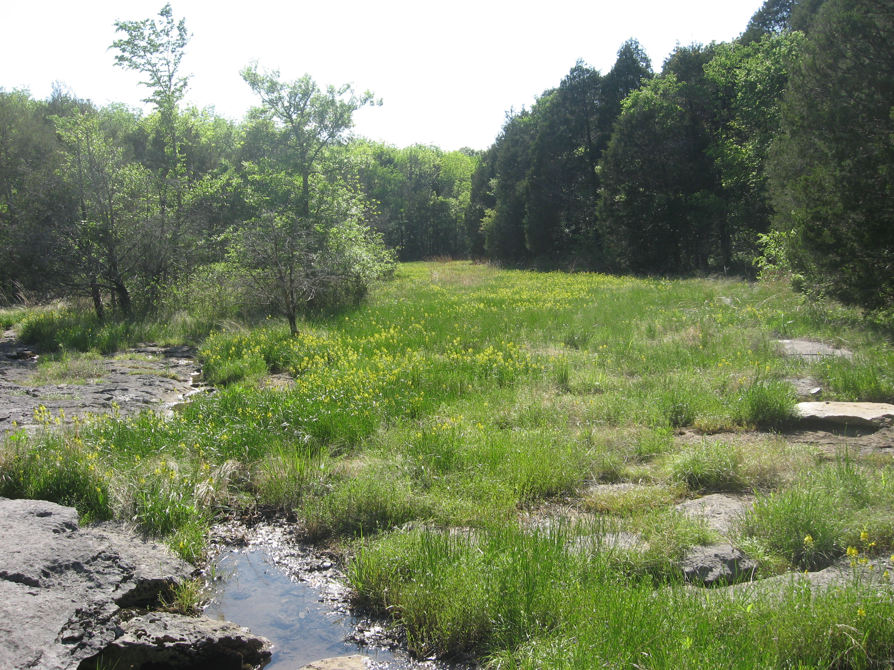 Calcareous seepage fen in Cedars of Lebanon State Forest, Wilson County, Tennessee.